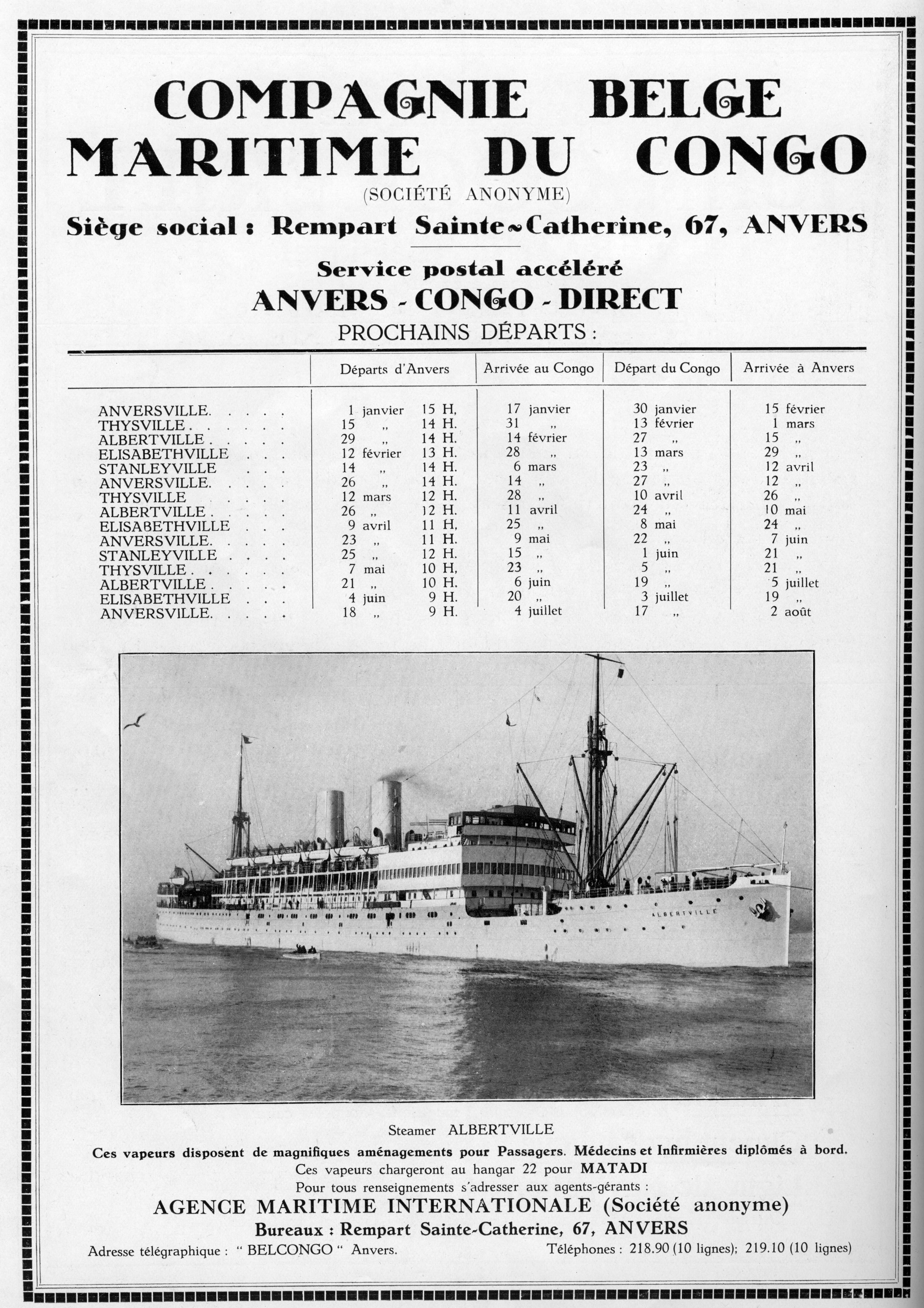 Ferry service Congo Belgium. Schip Albertville